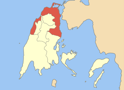 Locator map of Lefkada municipality (Δήμος Λευκάδας) in Lefkada prefecture (Νομός Λευκάδας) in Greece.